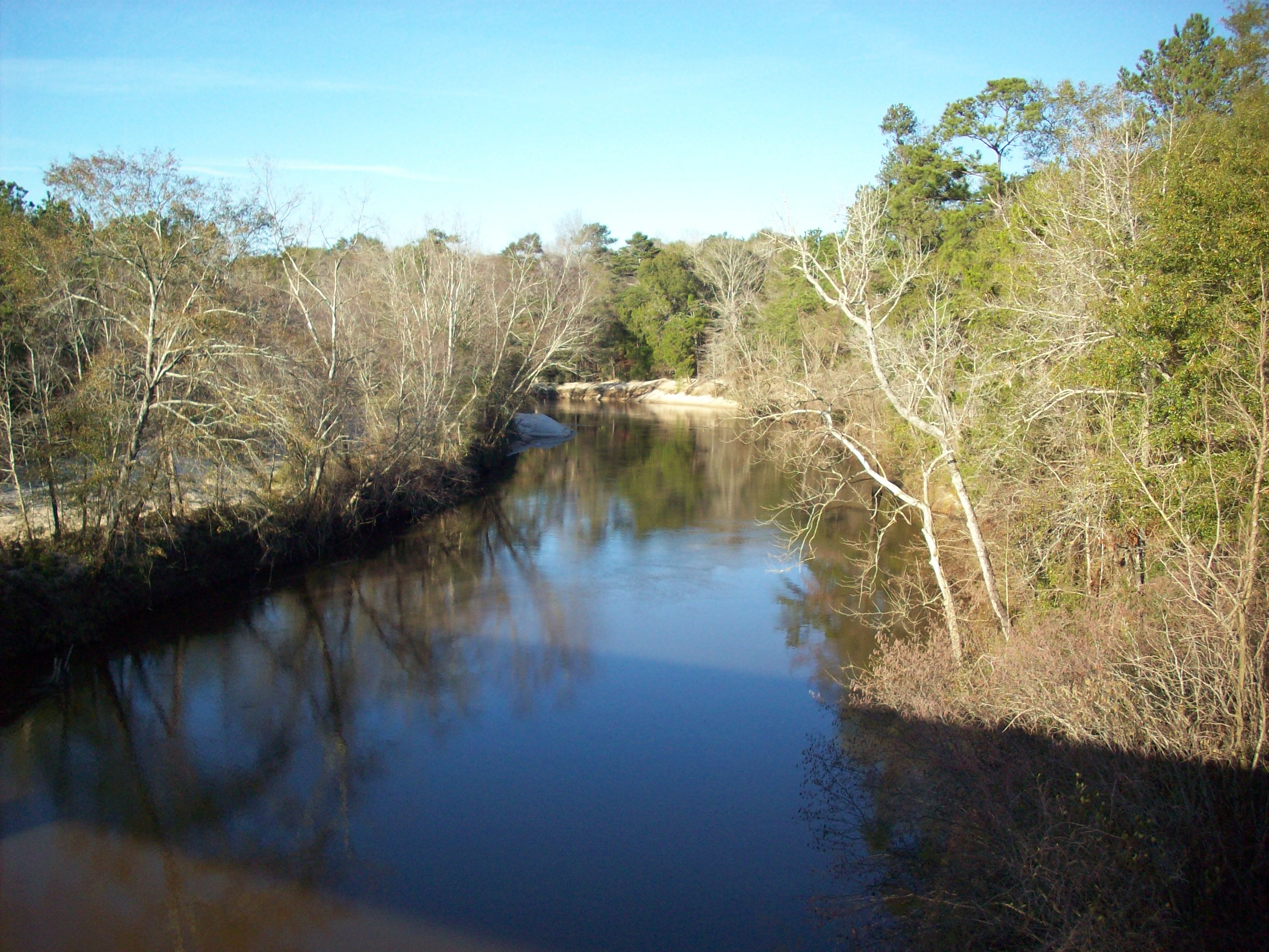 Choctawhatchee River near Daleville, Alabama. Taken from the U.S. 84 bridge east of town.